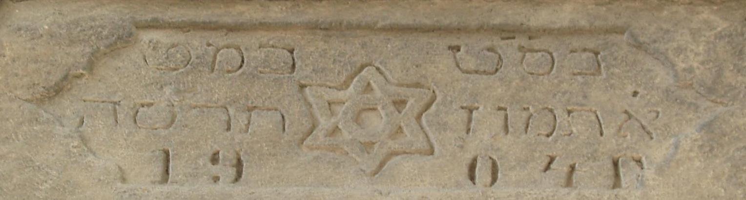 Tati language text on the house gates (Jewish script). Russia, Dagestan, Derbnent.